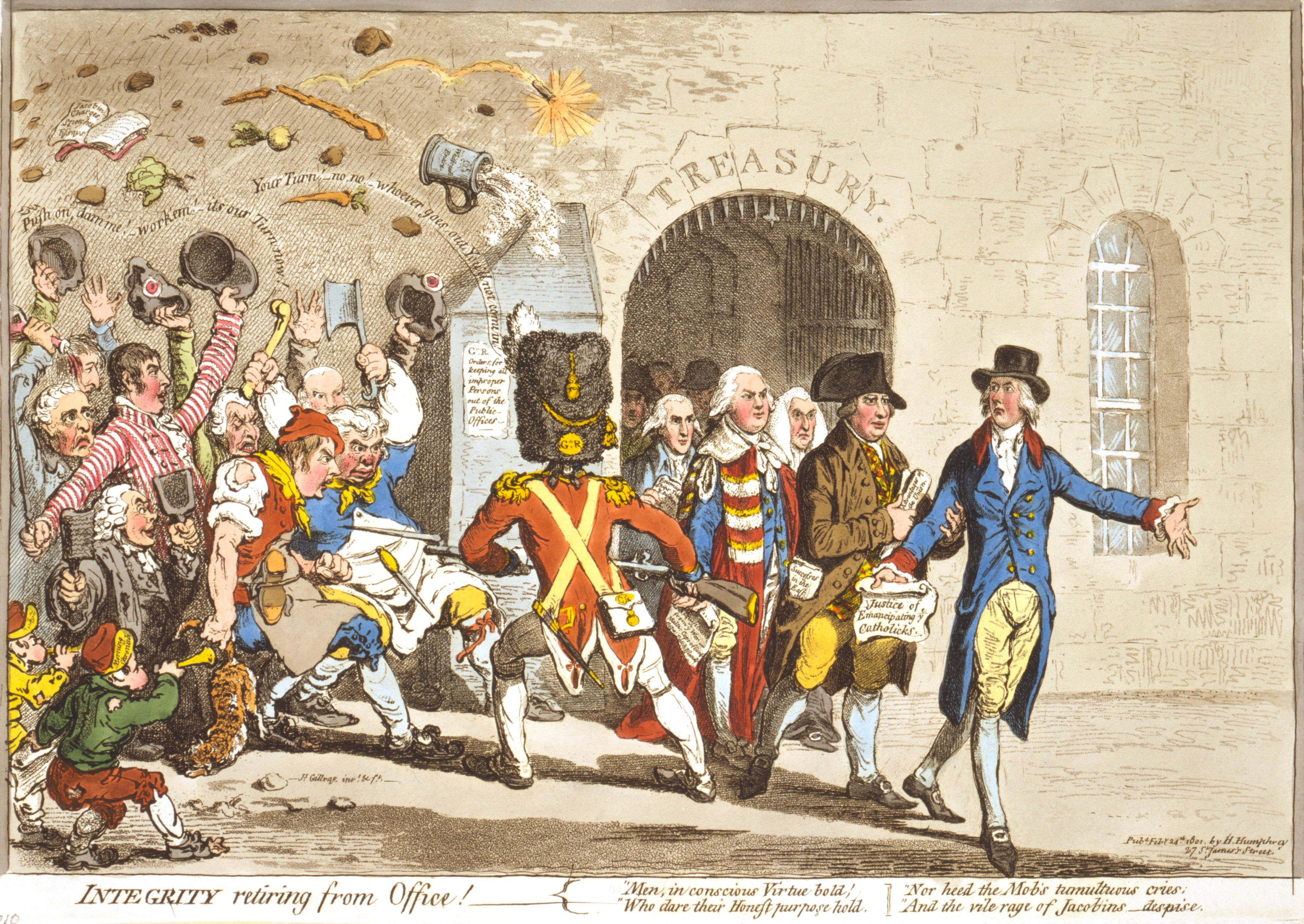 Integrity retiring from Office! Js. Gillray, invt & ft. SUMMARY: A group of resigning ministers, led by Pitt who holds a document entitled "Justice of Emancipating ye Catholicks", leaving through an arched gateway inscribed "Treasury." Following Pitt are Dundas, Grenville, Spencer and Loughborough. From the left, represented by a plebian rabble, is the Opposition, led by Sheridan and Tierney. Behind are Jekyll, Bedford, Nicholls, Tyrhwitt Jones, Norfolk and Burdett. The Opposition is held at bay by a sentry with G.R. on his bearskin. The sentry stands near his sentry-box with the placard: G.R. Orders for keeping all improper Persons out of the Public Offices. MEDIUM: 1 print : etching, hand-colored. CREATED/PUBLISHED: [London] : H. Humphrey, 1801 Feby 24th. According to Wright & Evans, Historical and Descriptive Account of the Caricatures of James Gillray (1851, OCLC 59510372), p. 203, "On the resignation of Pitt's Ministry, in the February of 1801. The Whigs whose tattered appearance would certainly entitle them to be classed under the head of 'improper persons,' are rushing to obtain the places thus vacated, but are held back by the sentinel at the Treasury gate, who perhaps is intended to represent Addington, the Premier who succeeded Pitt."